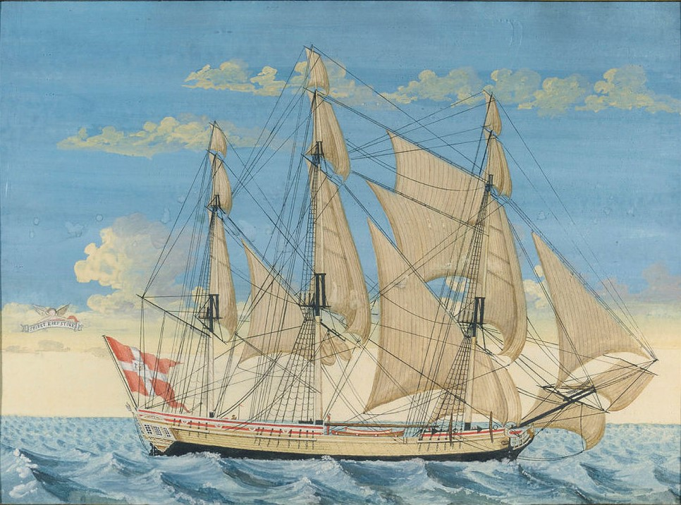 The ship Roepstorff . It sailed on the East Indies in 1781-83 under the command of captain Lorentzen and with Fr. de Coninck and N.C. Reiersen as owners.